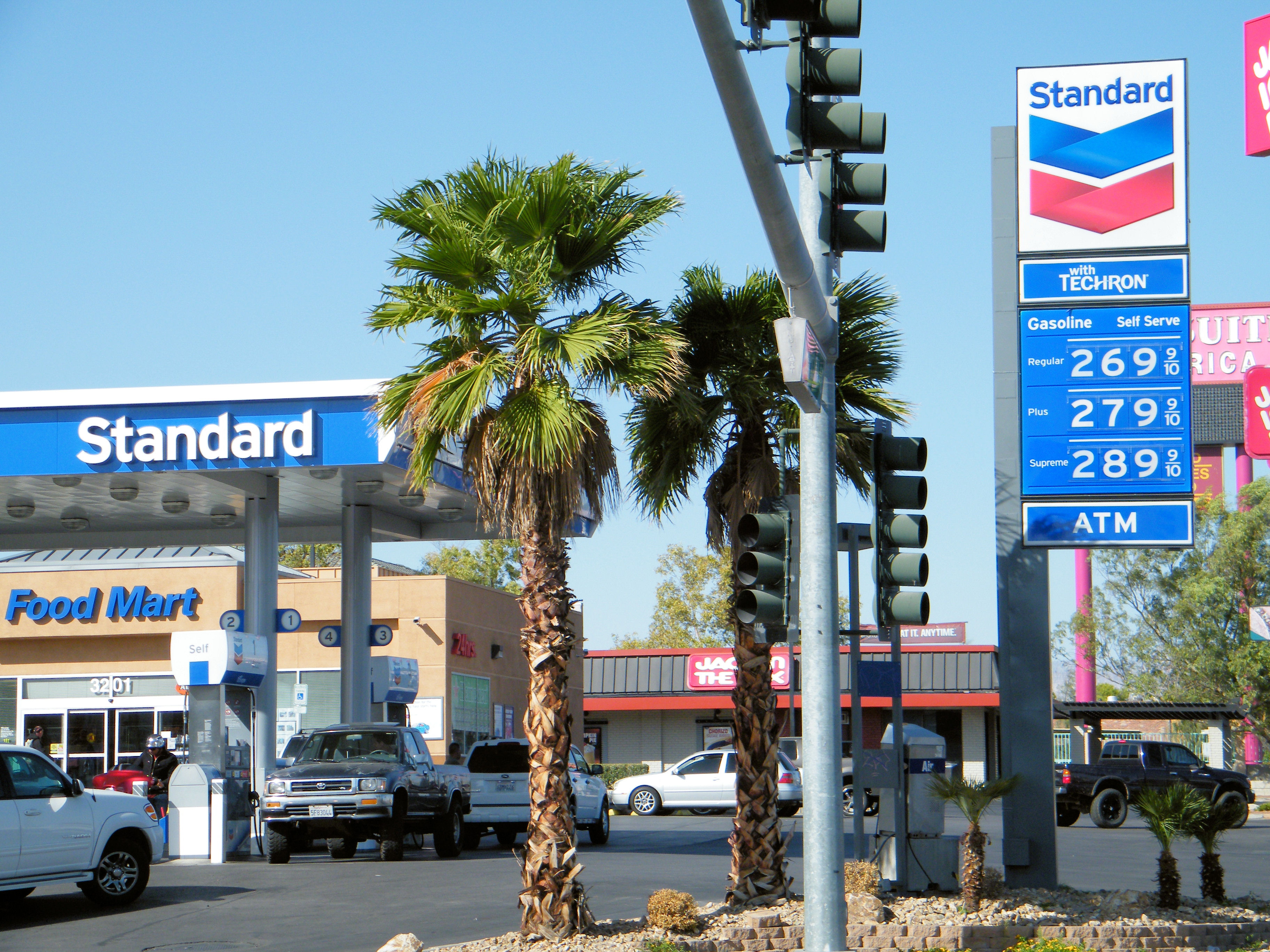 Chevron Corporation operates several gas stations under the trademark "Standard" in order to retain control over its former trademark (as U.S. trademark law operates under a use-it-or-lose-it rule). This one is located in Las Vegas, Nevada, just west of the Las Vegas Strip. Photographed by user Coolcaesar on October 4, en:2009.